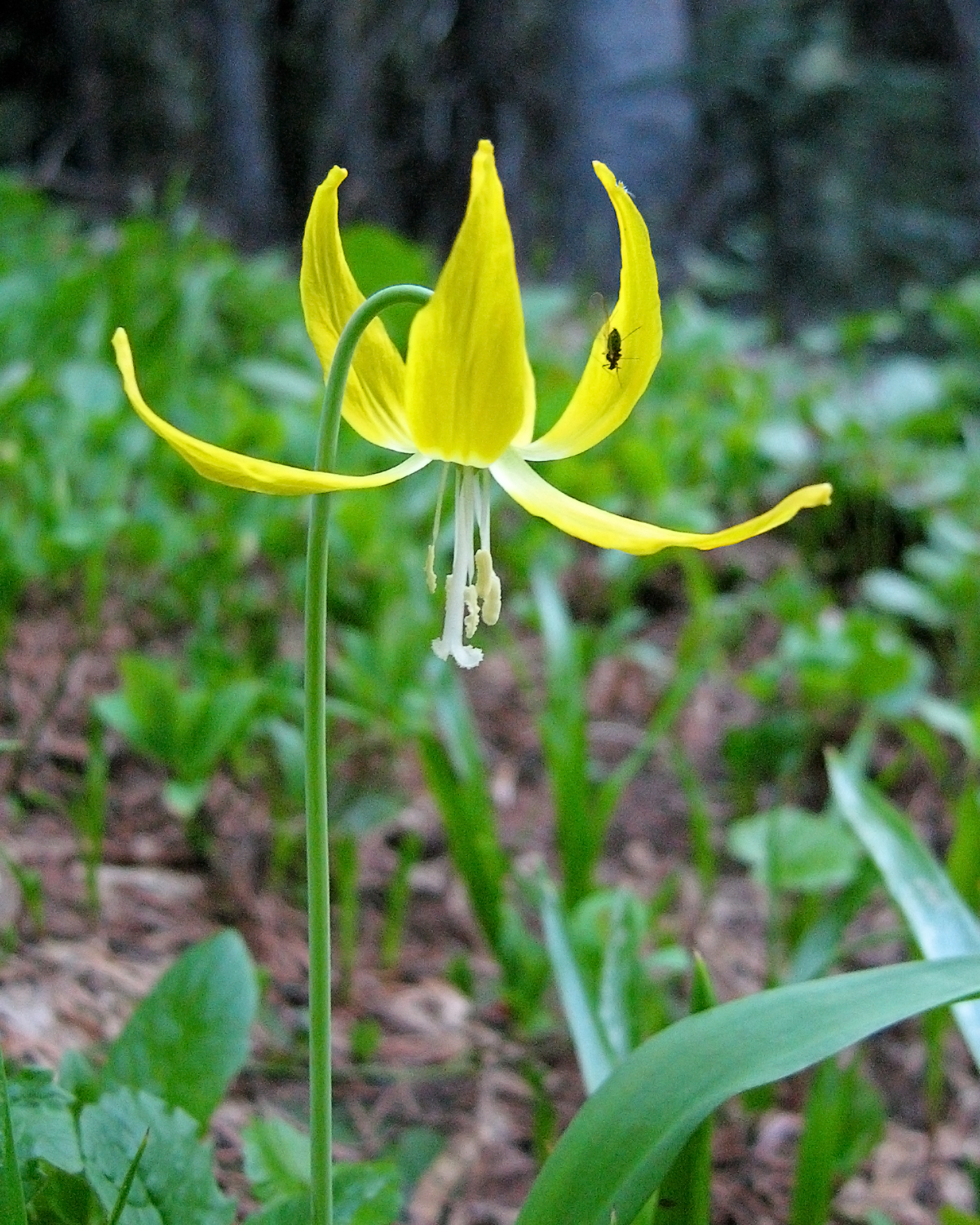 Erythronium grandiflorum on Noble Knob, on the side of Mutton Mountain, Trail #1184 - Mount Baker-Snoqualmie National Forest